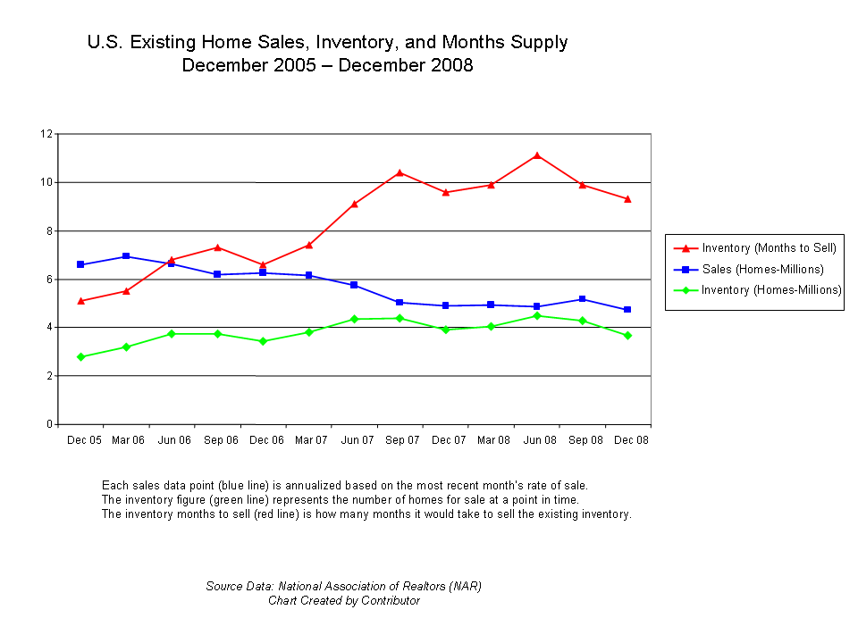 Home sales, inventory, and months supply Alan Greenspan, the former Chairman of the Federal Reserve, stated:[1] Contents 1 Source Data 2 References 3 Licensing 4 Original upload log Source Data This data is from the National Association of Realtors. They release a monthly "Existing Home Sales" press release with these statistics. In addition, they have an annual summary spreadsheet for 2007 which I retrieved 2/6/08. Some of the data in this spreadsheet differs from the data in their monthly press release. The figures for sales of homes are annualized rates for the month indicated (e.g., sales for the month multiplied by 12, I assume). Inventory data is as of that point in time. These are NOT quarterly figures; I simply picked quarter-ending months. Below is a typical reference for one of their monthly press releases[2] and for the spreadsheet summary.[3] References ↑ Greenspan WSJ Op Ed ↑ NAR: Existing-home Sales Down in December but 2007 was Fifth Highest on Record ↑